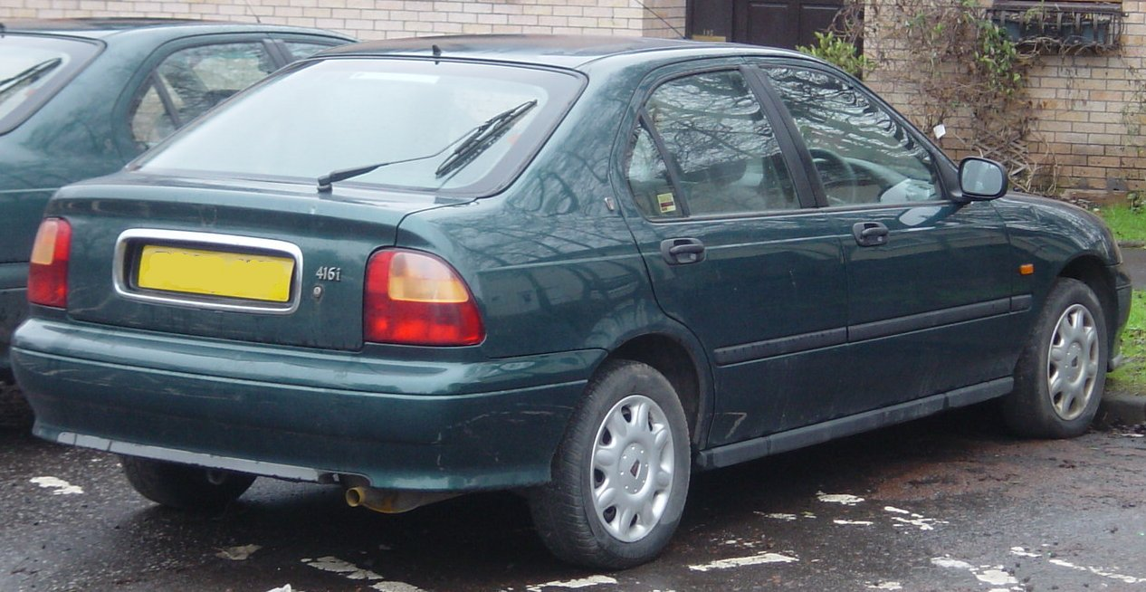 created by Mazurka